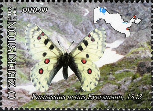 Stamps of Uzbekistan, 2006